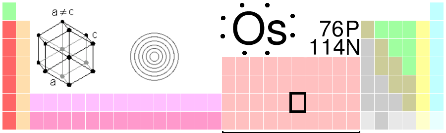 Image by Daniel Mayer or GreatPatton and released under terms of the GNU FDL